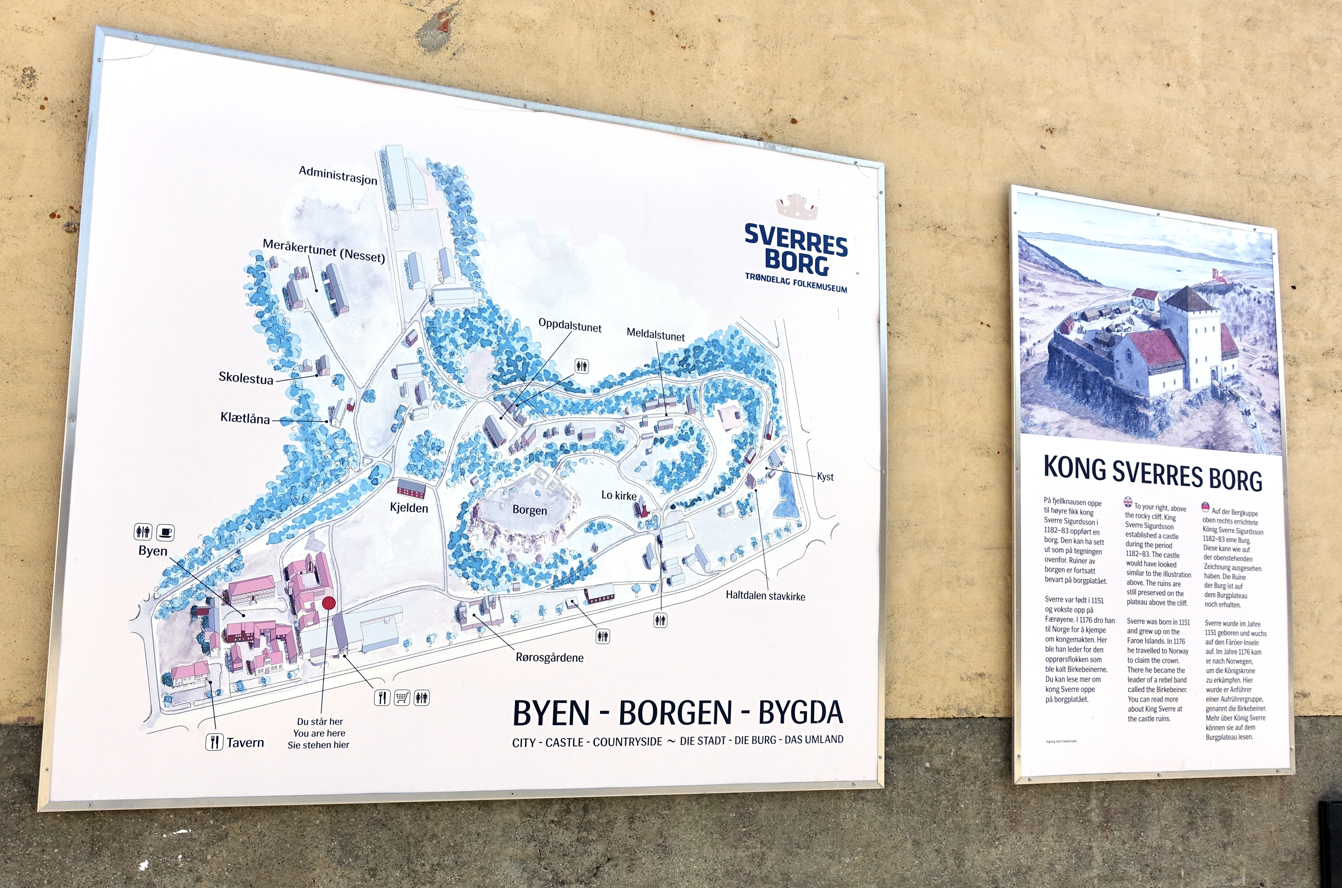 Sverresborg Trøndelag Folk Museum, an open-air and regional cultural history museum with more than 60 buildings, in the area surrounding the ruins of King Sverre's medieval castle (small fortress) in Trondheim, Norway. Photo showing two information boards with map of the site (Byen Borgen Bygda, "City Castle Countryside") and a drawing of Kong Sverres Borg (Sverre Sigurdsson's castle 1182), taken on a sunny spring day in April 2019.